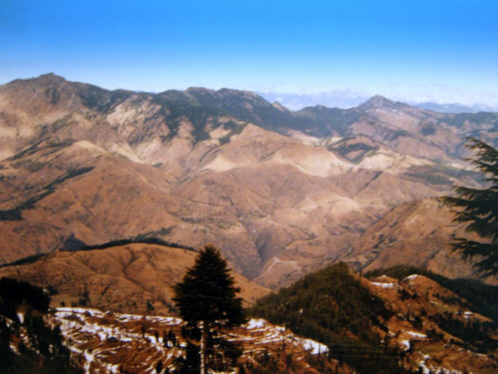 view of Himalayas from Chharabra Summary view of Himalayas from Chharabra